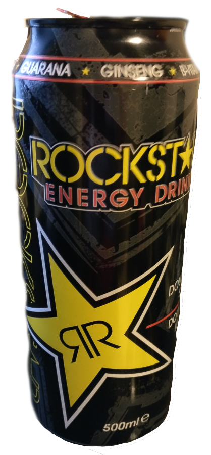 A can of Rockstar Energy drink. Original flavor.